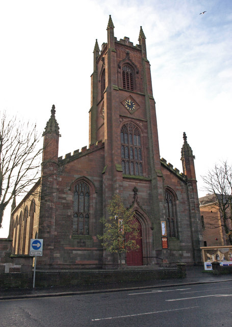 St. Marnock's Parish Church, Kilmarnock This church sits on St. Marnock Street between the Police Station on the left and the Sheriff Court on the right.